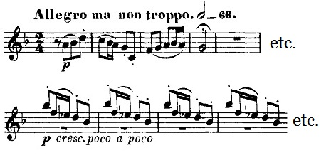 Introduction and descending motif from the first movement of Ludwig van Beethoven's Symphony No. 6 in F major (Pastoral)